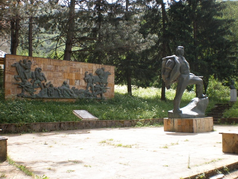 The monument of Macedonian freedom fighters in Trnica, Macedonia